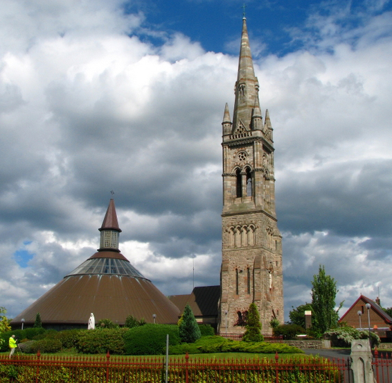 St Colmcille's Roman Catholic church in Holywood, County Down, Northern Ireland